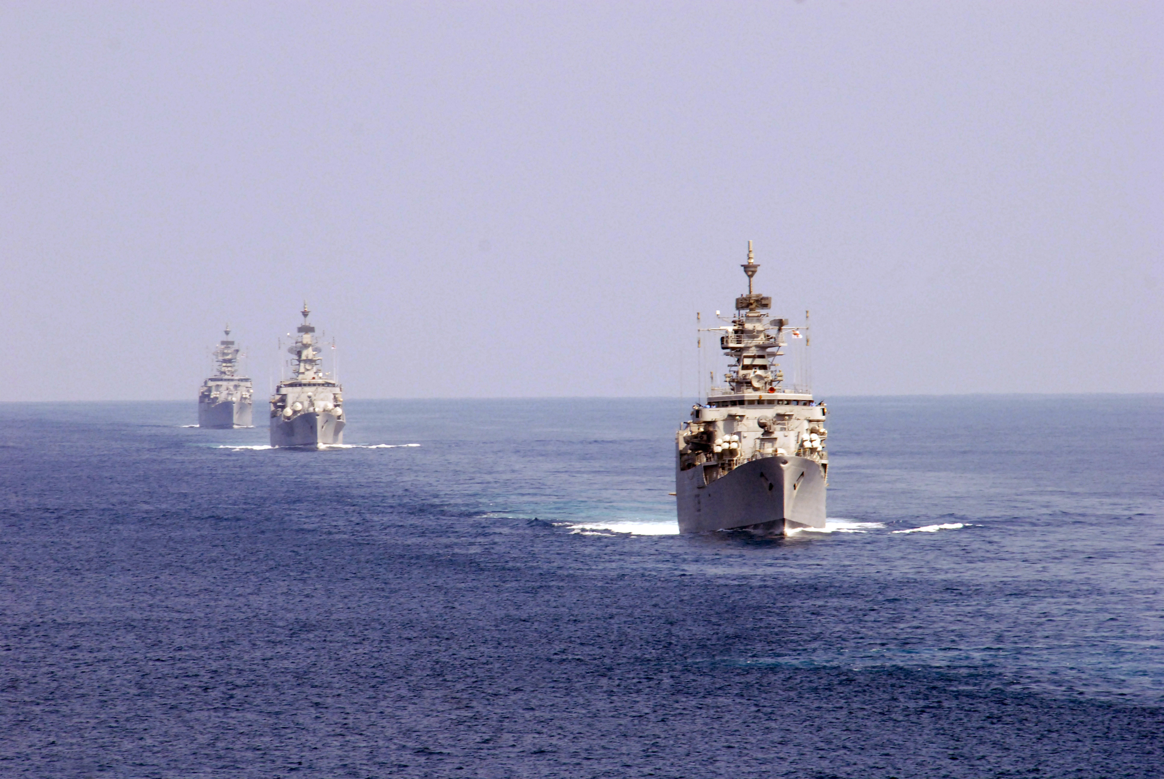 Three Indian Navy frigates, INS Godavari (F20), INS Brahmaputra (F31) and INS Beas (F39), steam in formation behind the Ticonderoga-class guided-missile cruiser USS Chancellorsville (CG 62), not pictured, before a weapons firing exercise during Malabar 2008. Malabar 2008 is a bilateral exercise between the United States and India.